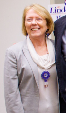 Kim Gillan, member of the Montana Senate.